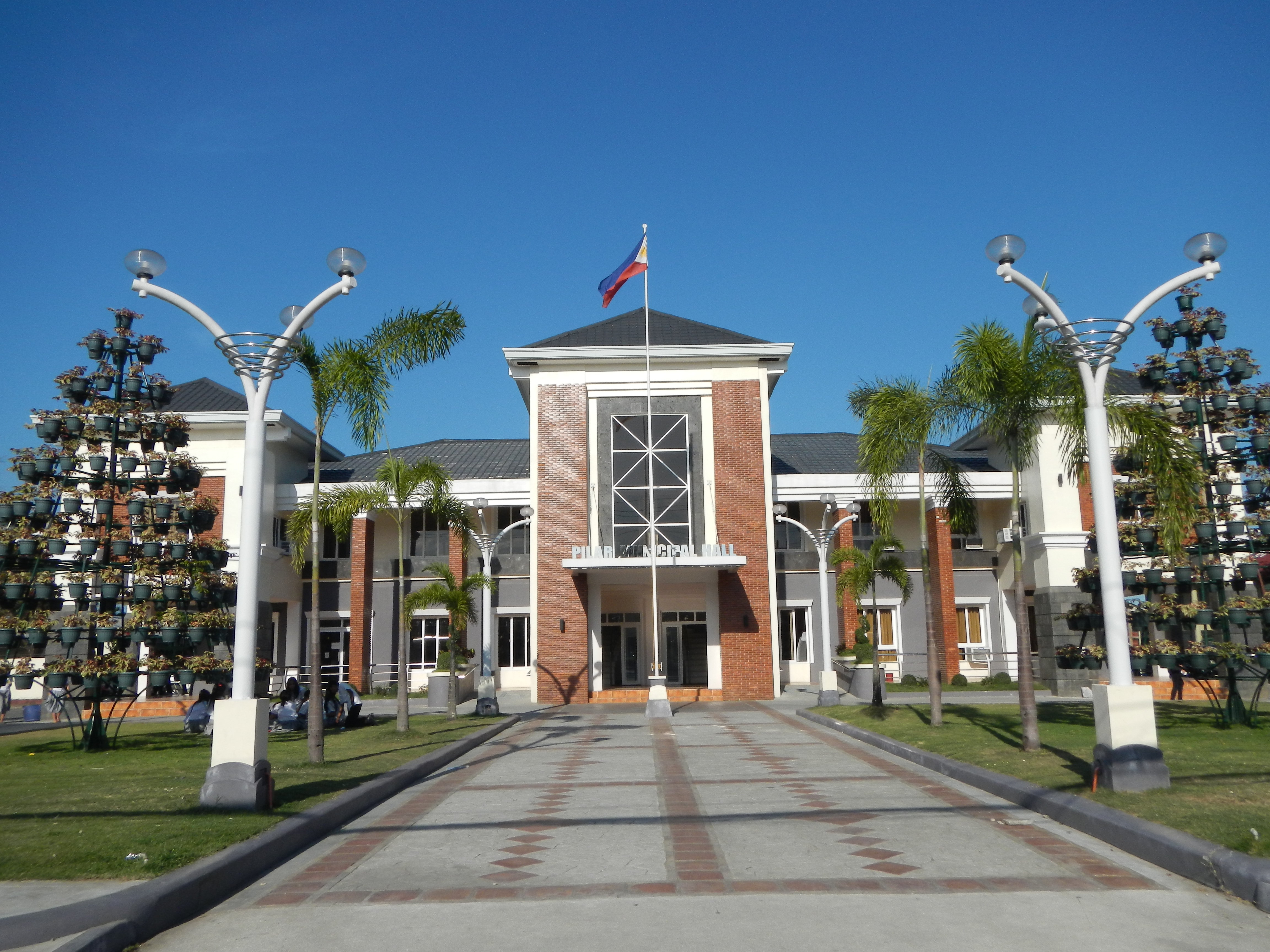 Pilar, Bataan[1][2][3]